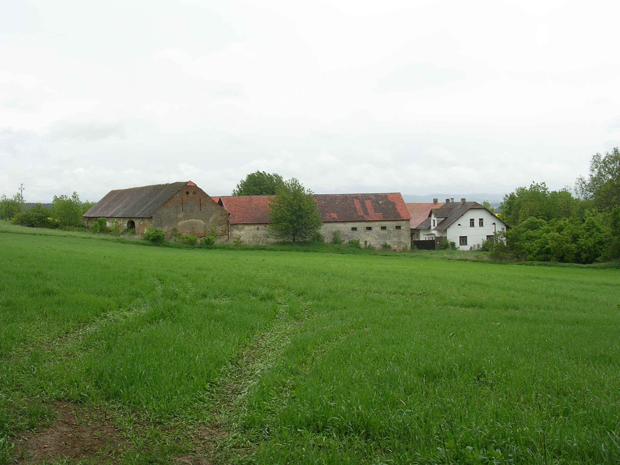 Neustupov-Slavín, Benešov District, Central Bohemian Region, the Czech Republic.